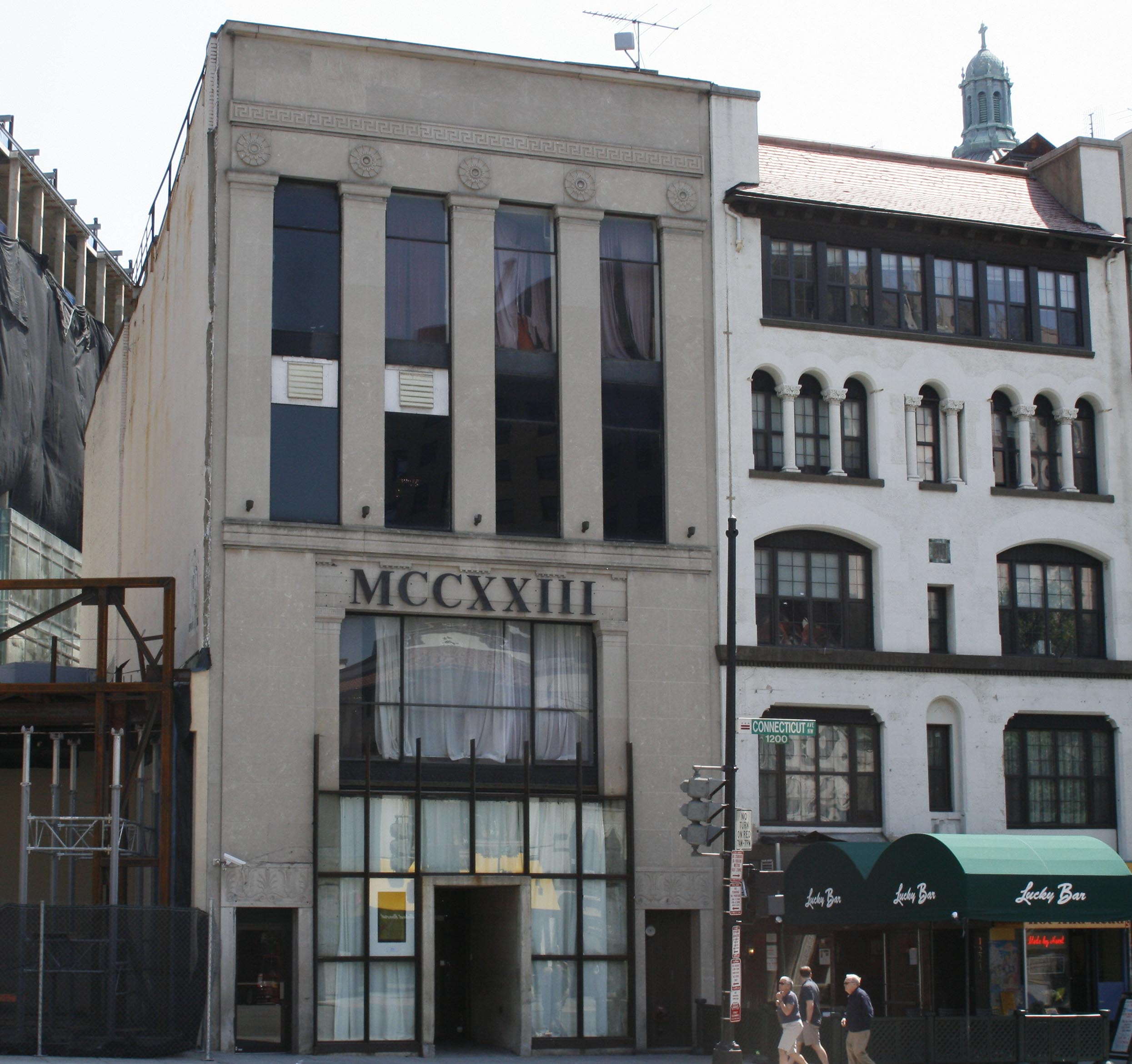 Did You Know? This building at 1223 Connecticut Ave, NW, (the MCCXXII Club) was known as the Mayflower Club. It was considered the swankiest Prohibition-era speakeasy in DC. The Mayflower Club offered patrons liquor and gambling